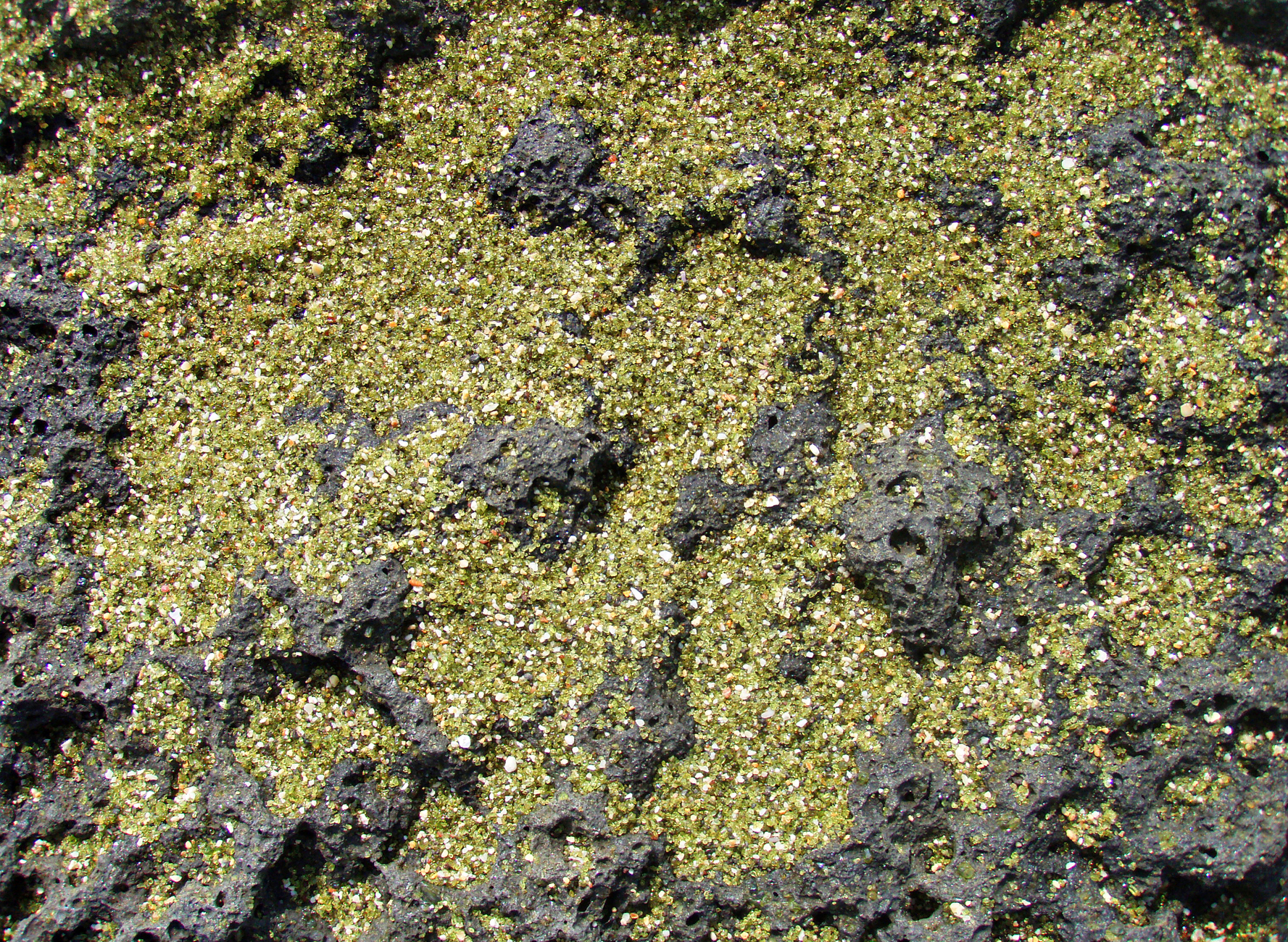 Close up of Green Sand. When looking on the image in a full resolution please notice that while some olivine Crystals are became green sand others are still inside a lava rock